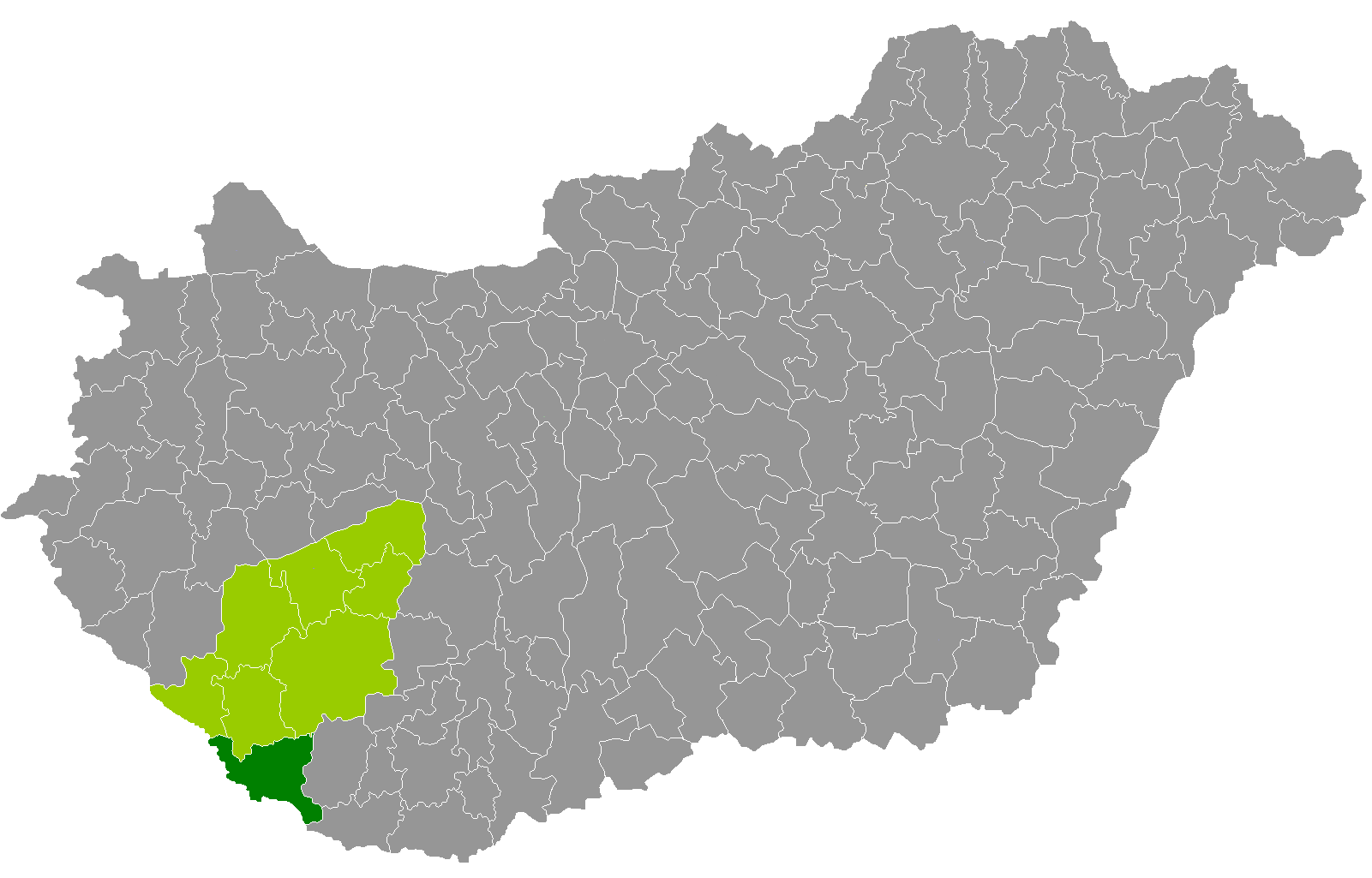 Location of Barcs District, Somogy, Hungary